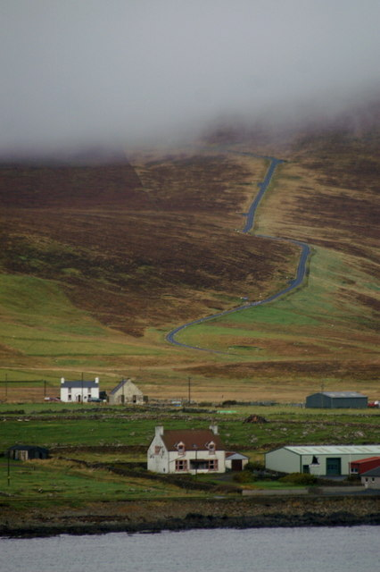 Haroldswick and the road up Saxa Vord Hamarsgarth and the Unst Boat Haven are in the foreground, and the road to the former radar base snakes up the hill of saxa Vord in the background, on a day of low cloud.